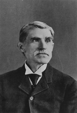 James R Thornton in 1909 Kaleidoscope